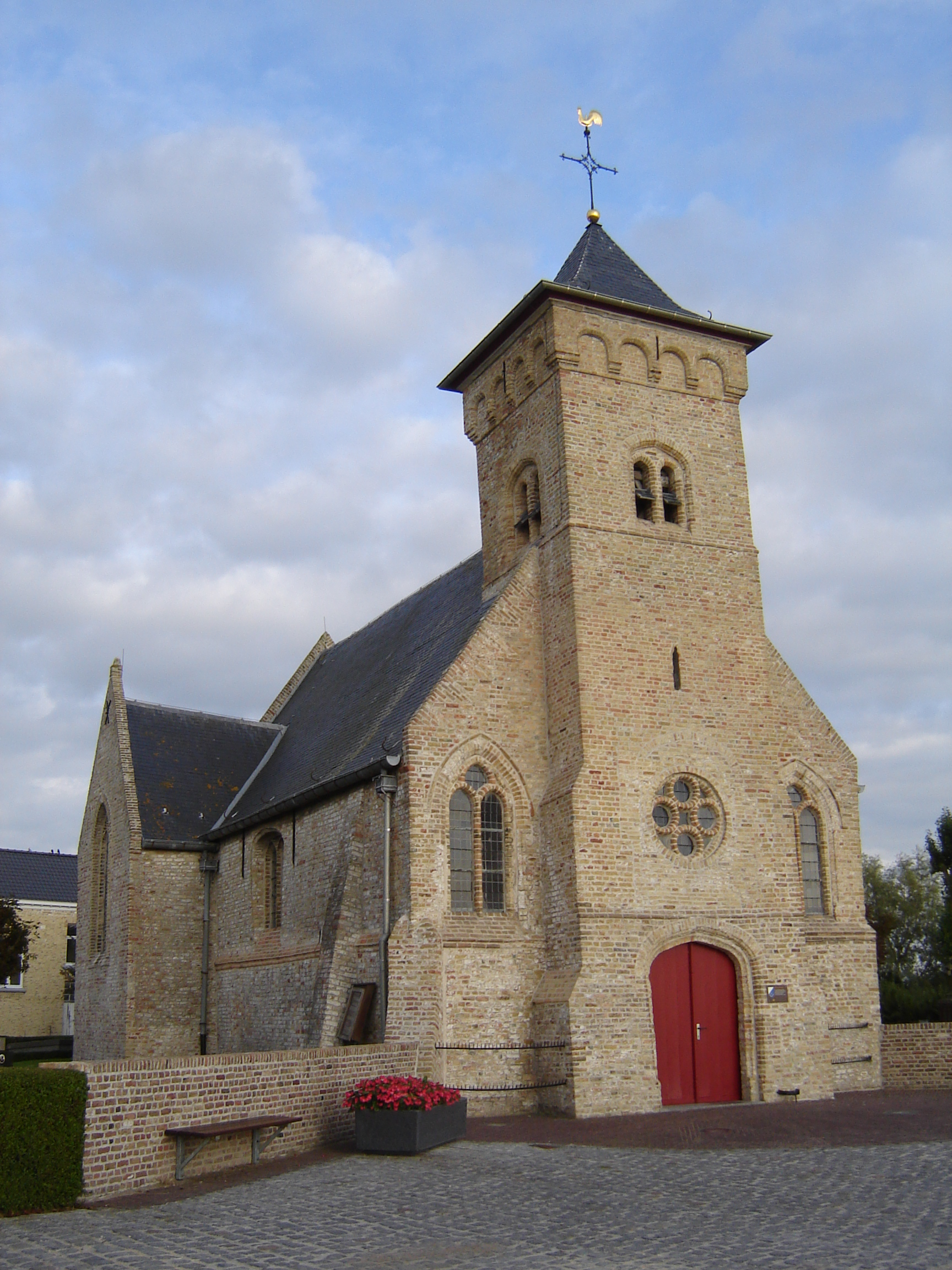 Church of Saint Audomare in Booitshoeke. Booitshoeke, Veurne, West Flanders, Belgium